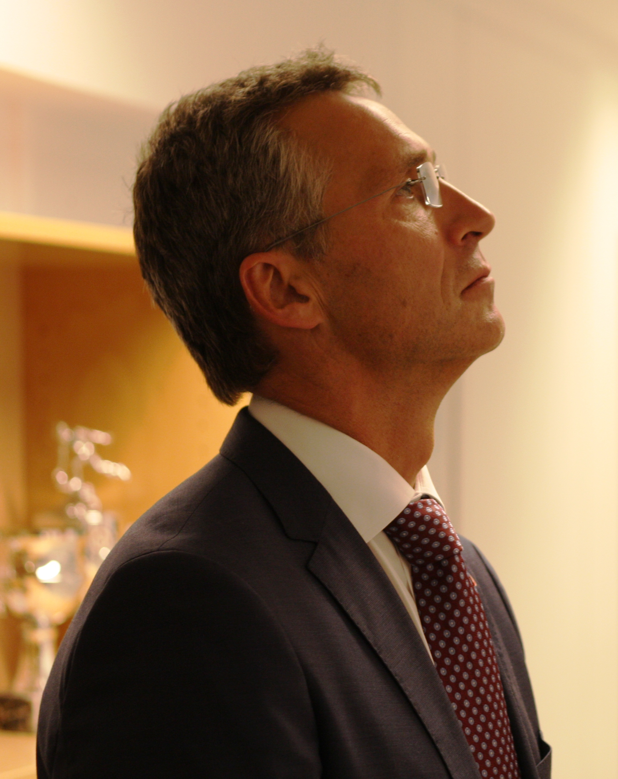 Prime minister Jens Stoltenberg (Norway), as of August 24, 2011